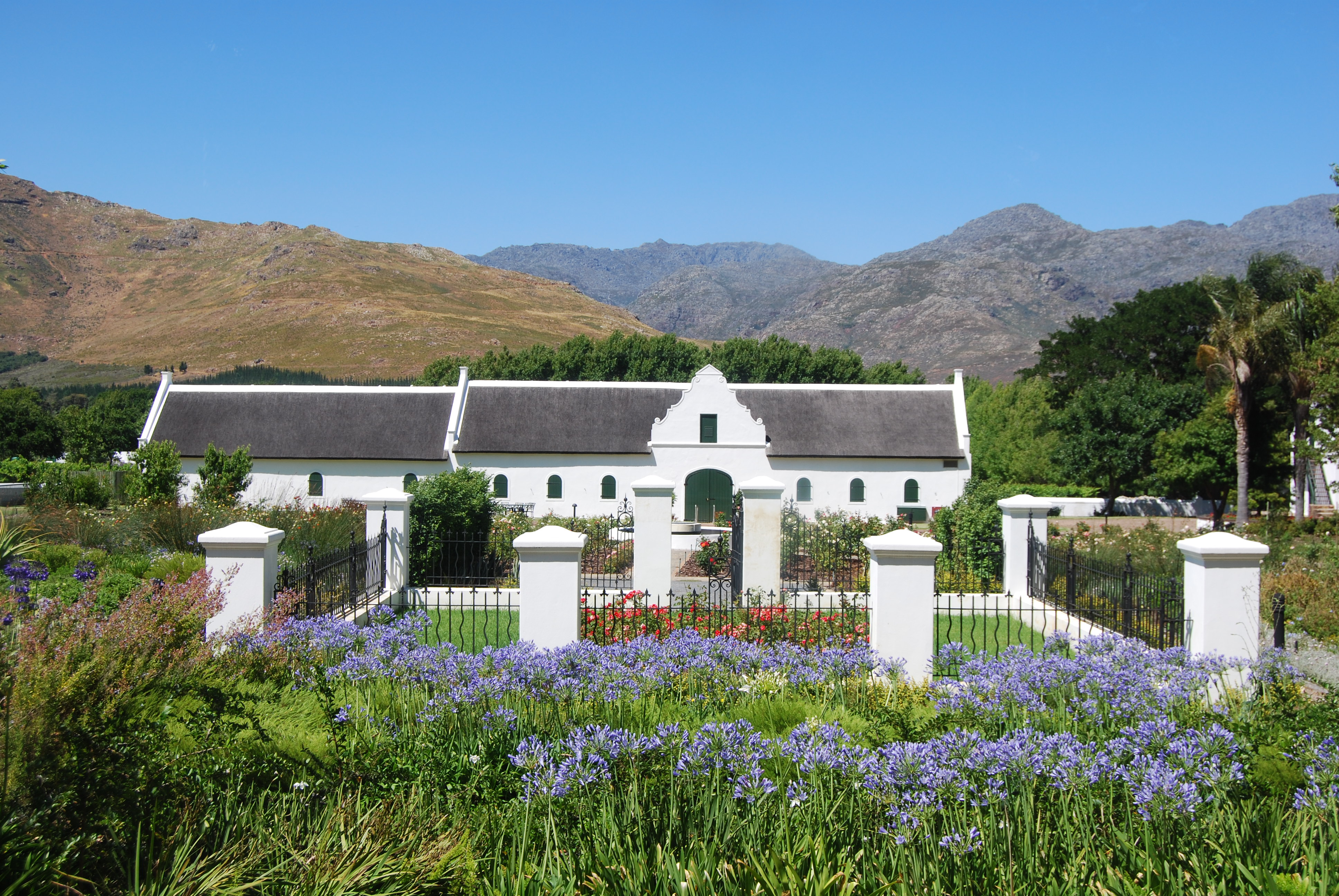 La Motte Manor House, Franschhoek This media shows a South African Protected Site with SAHRA file reference 9/2/069/0077.